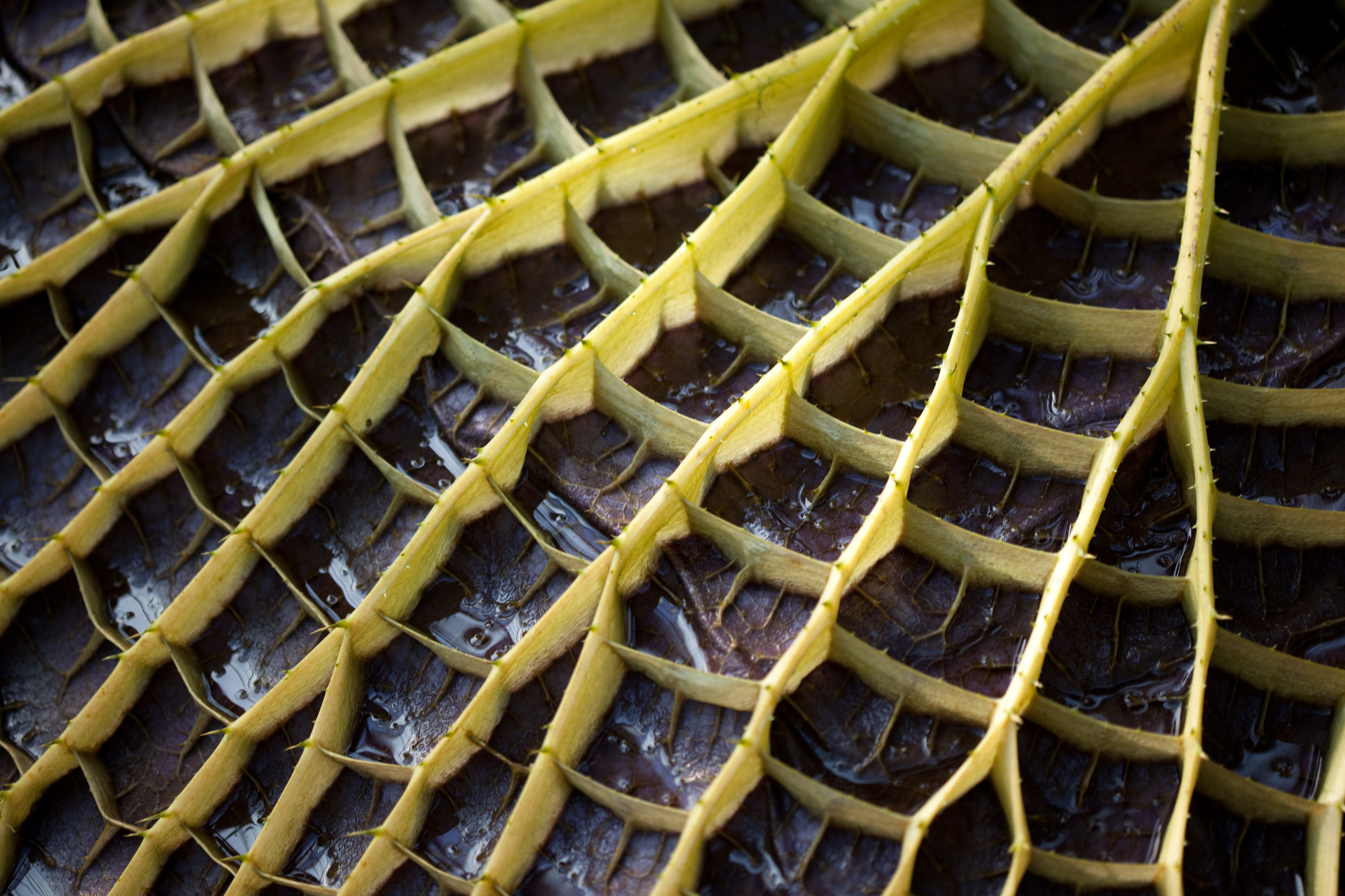 Victoria amazonica, back side of a leaf (Kobe Kachoen)